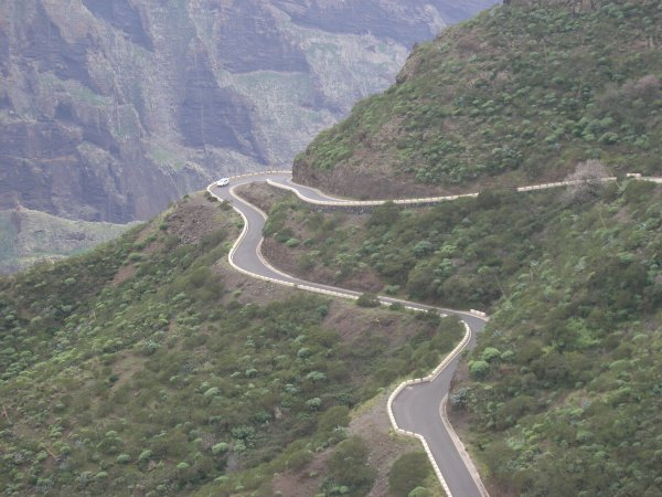 Tenerife, Road on Masca